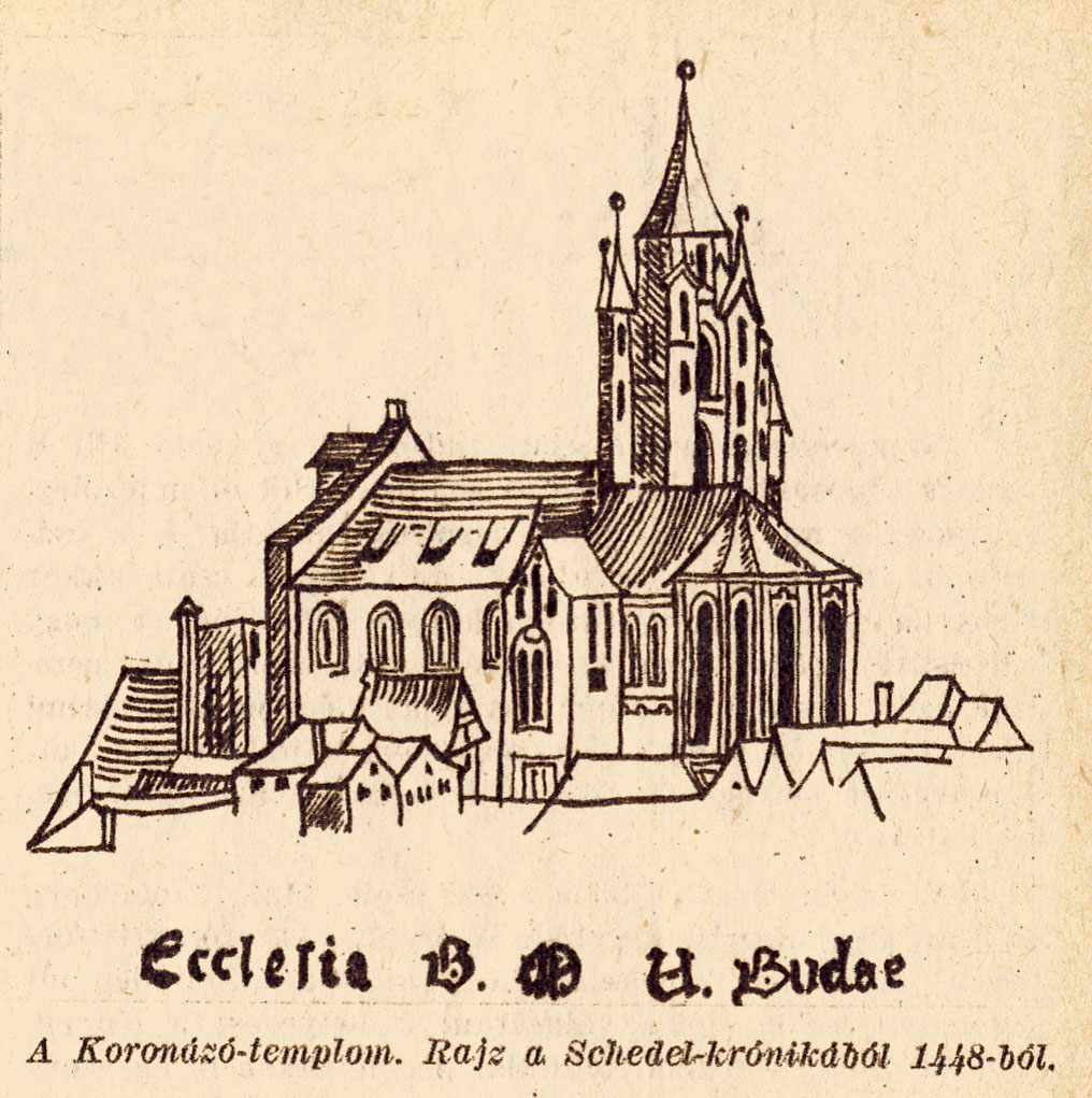 Matthias Church (Budapest).